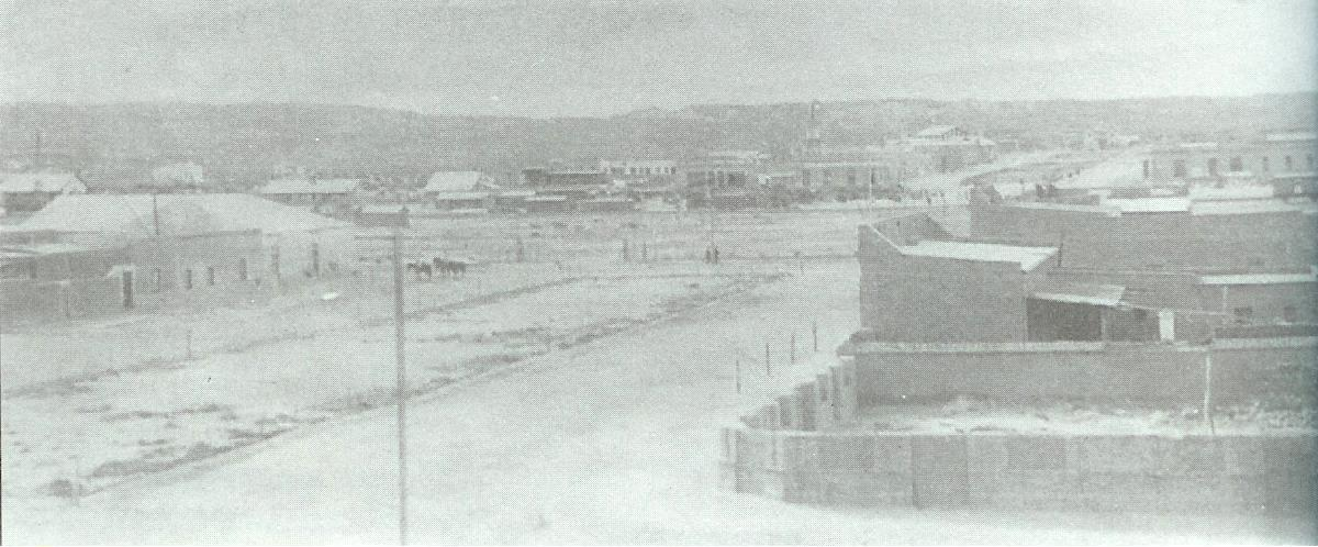 Photo of Neuquén, Argentina, downtown in 1916.